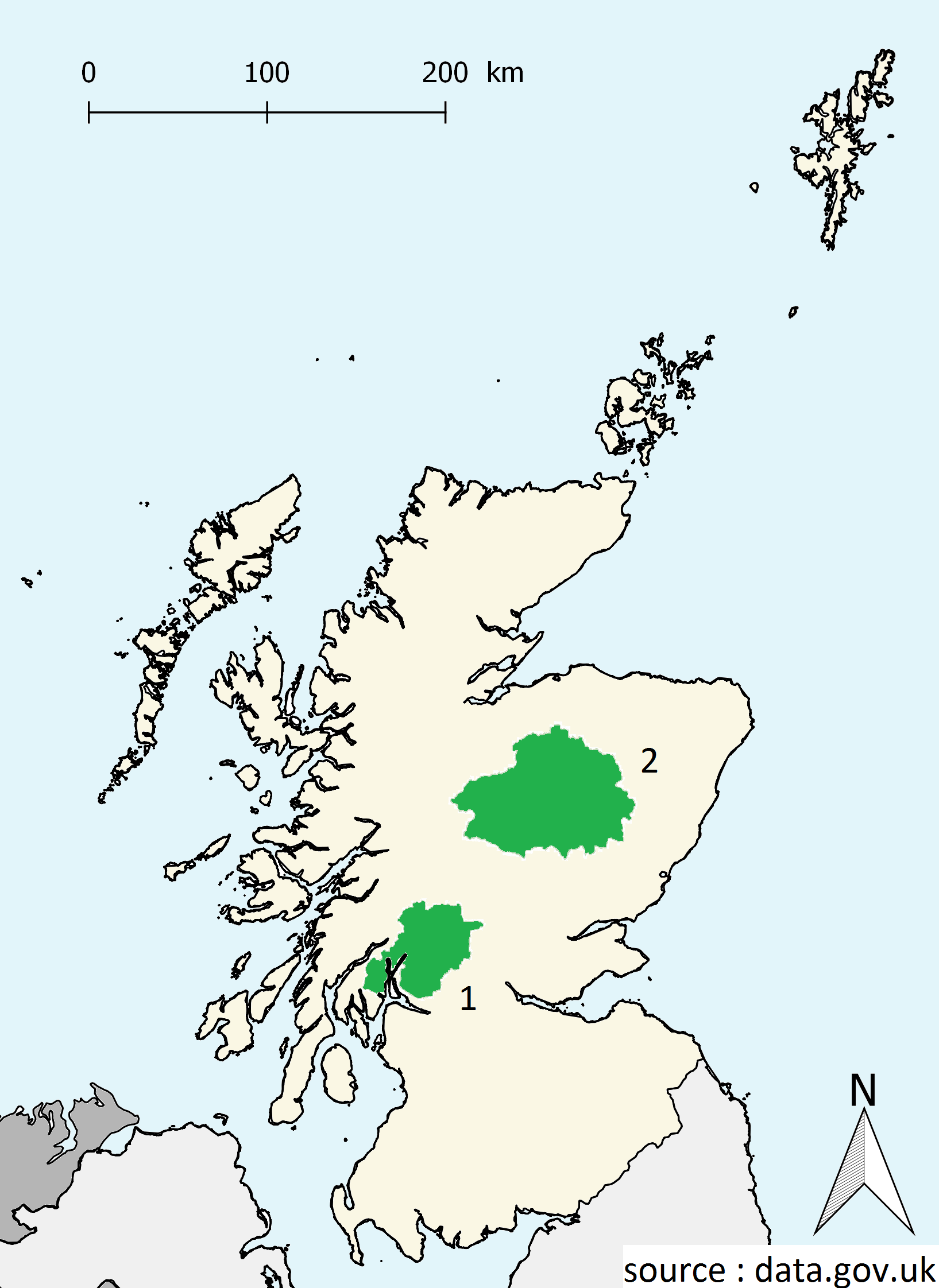 National Parks of Scotland :1.Loch Lomond and The Trossachs National Park2. Cairngorms National Park